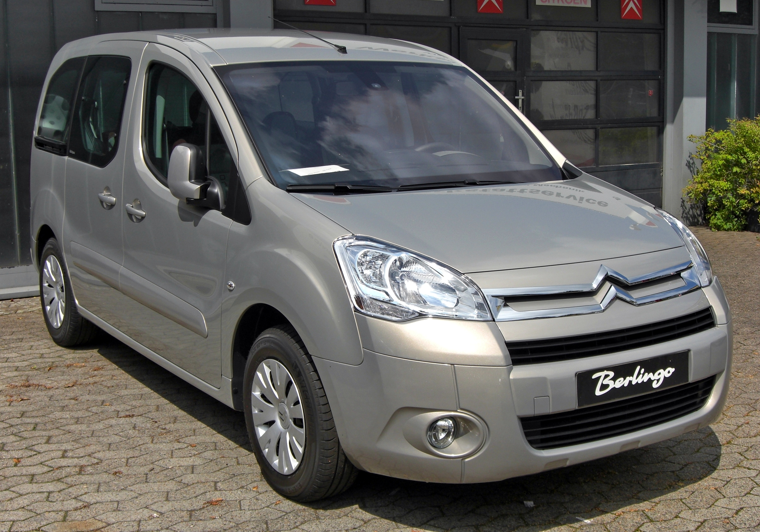 Citroën Berlingo II